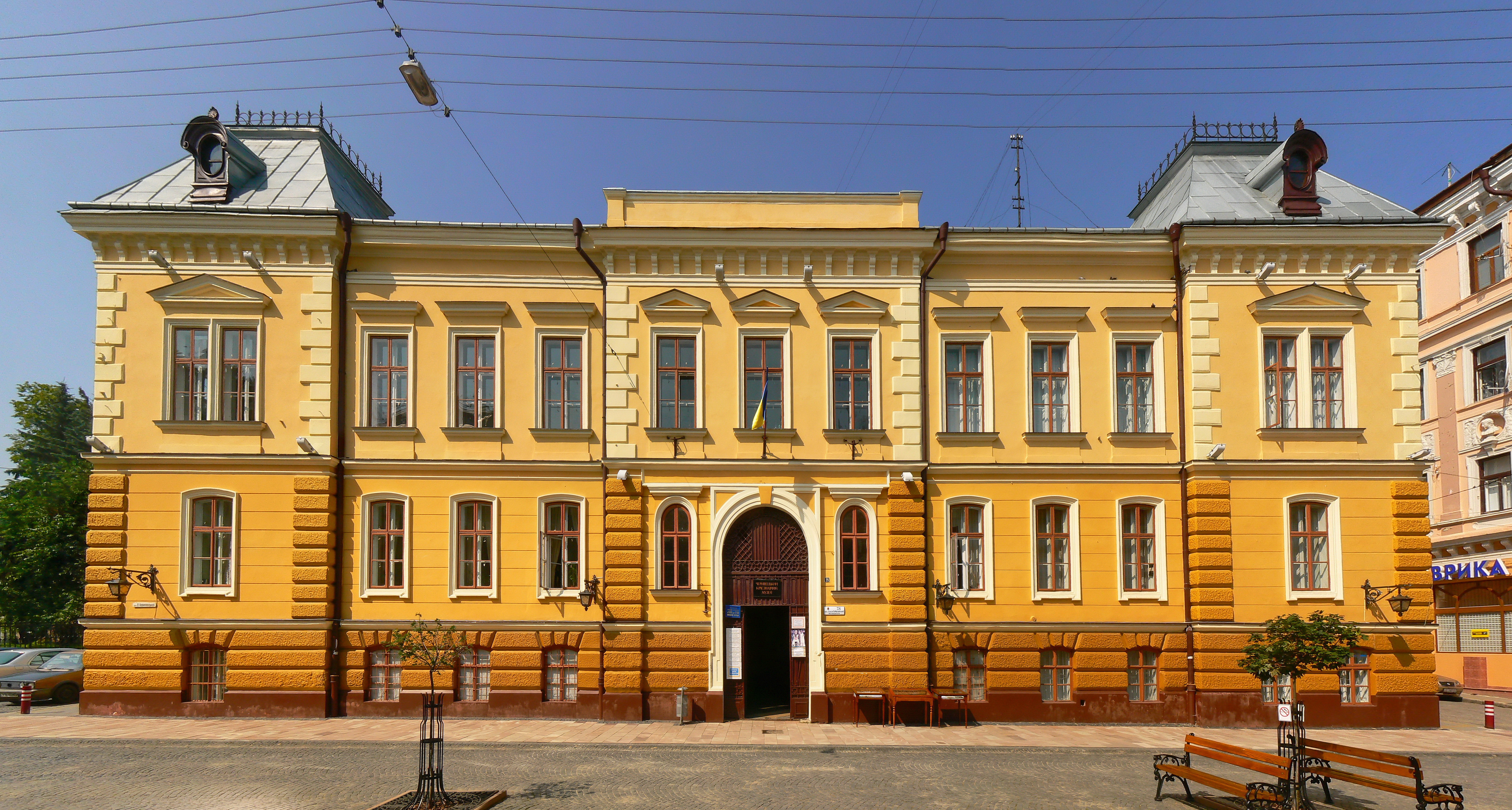 Кобилянської, 28